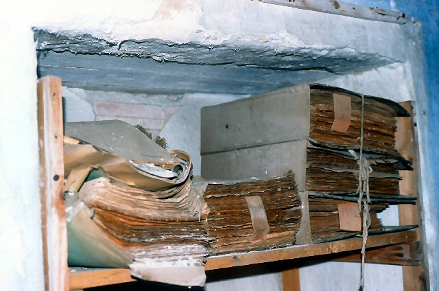 files